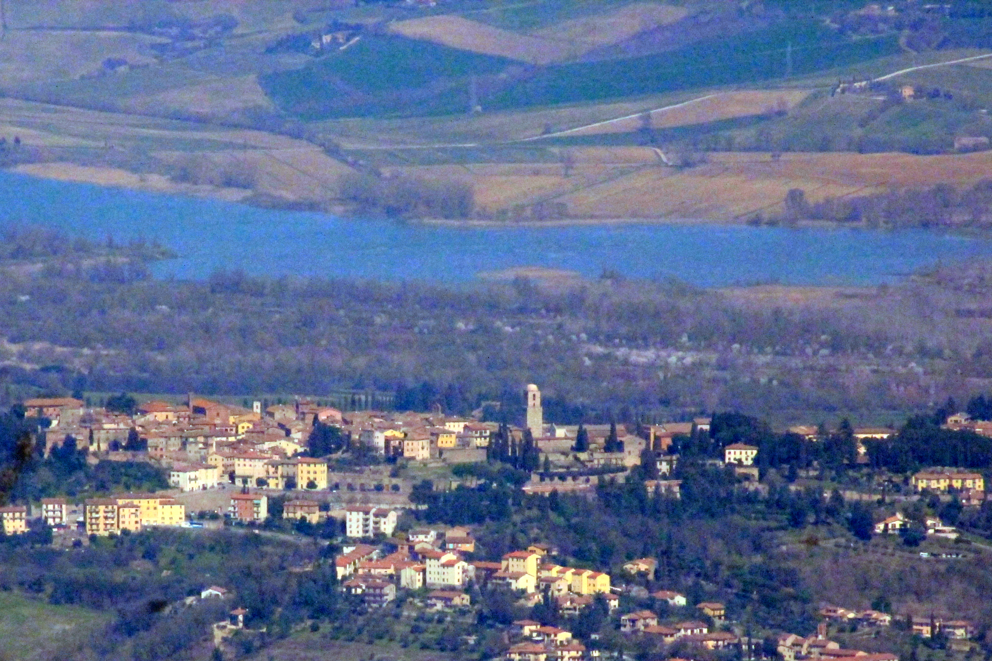 Panorama of Chiusi, Province of Siena, Tuscany, Italy